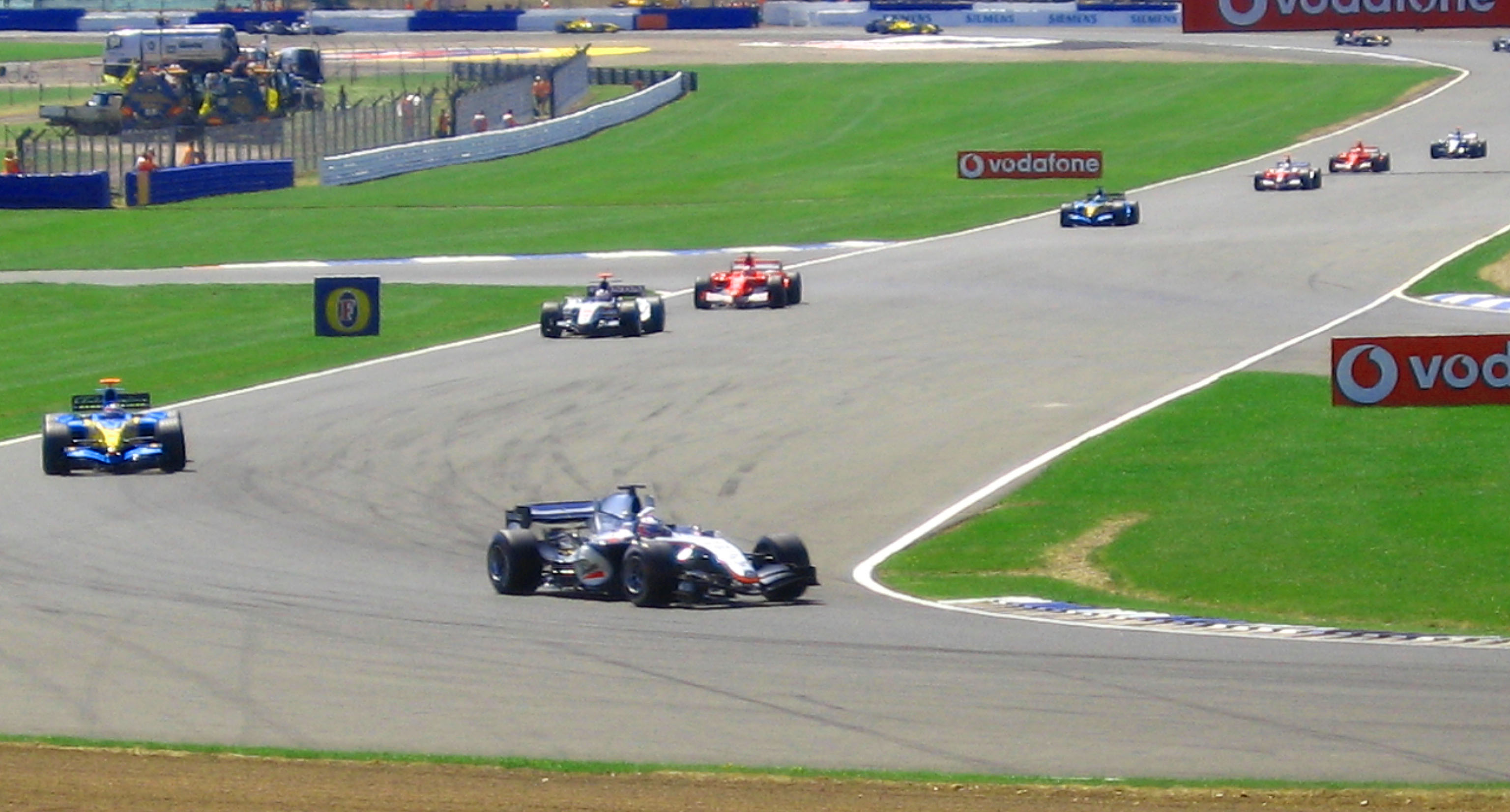 Juan Pablo Montoya is in the leadLap 1 of 60